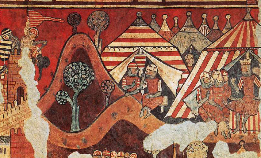 Assalt a Medina Mayurqa 1229. Fresco moved to the MNAC